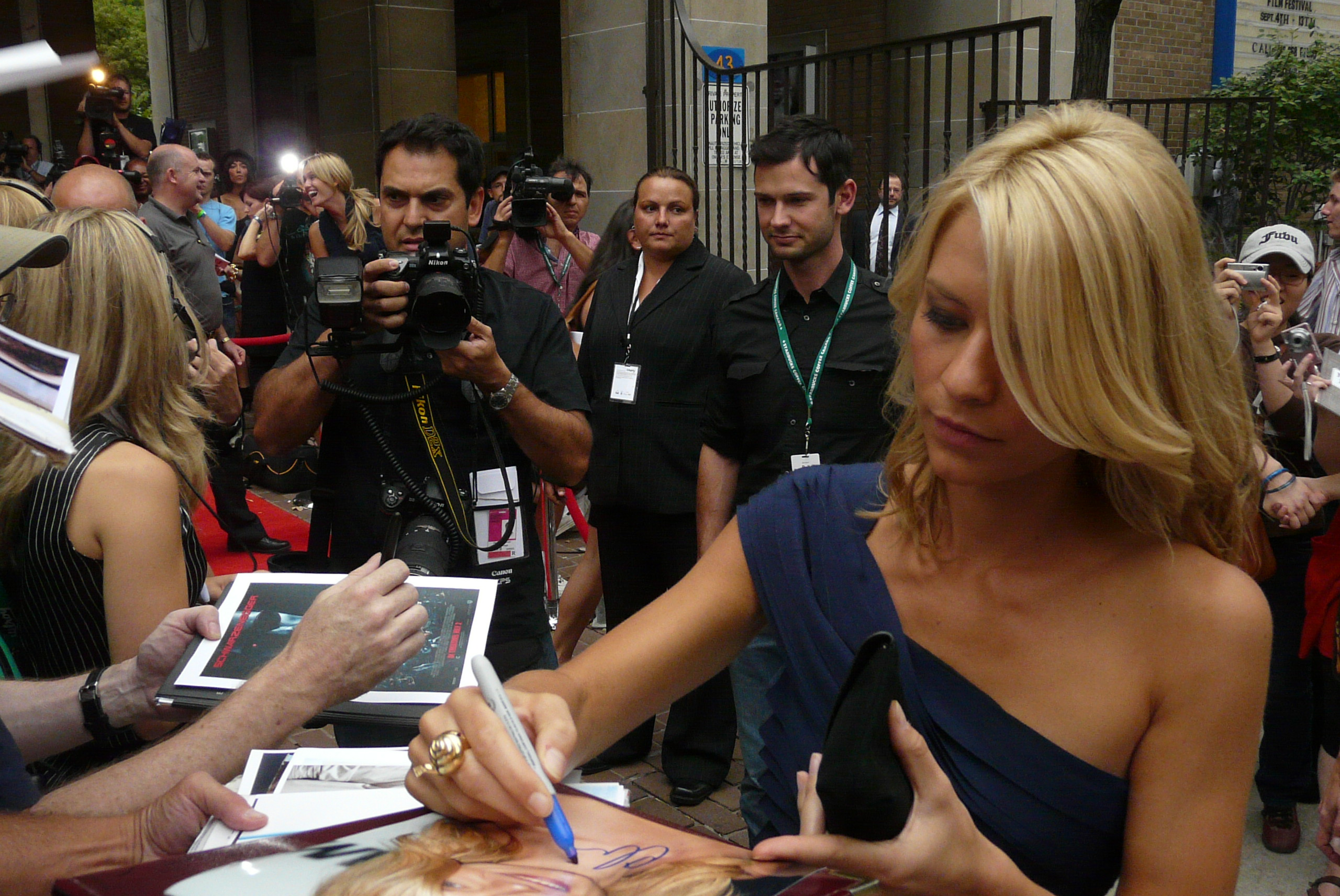 Claire Danes arrives at Tiff '08 Premiere of Me and Orson Welles See even more great pics at